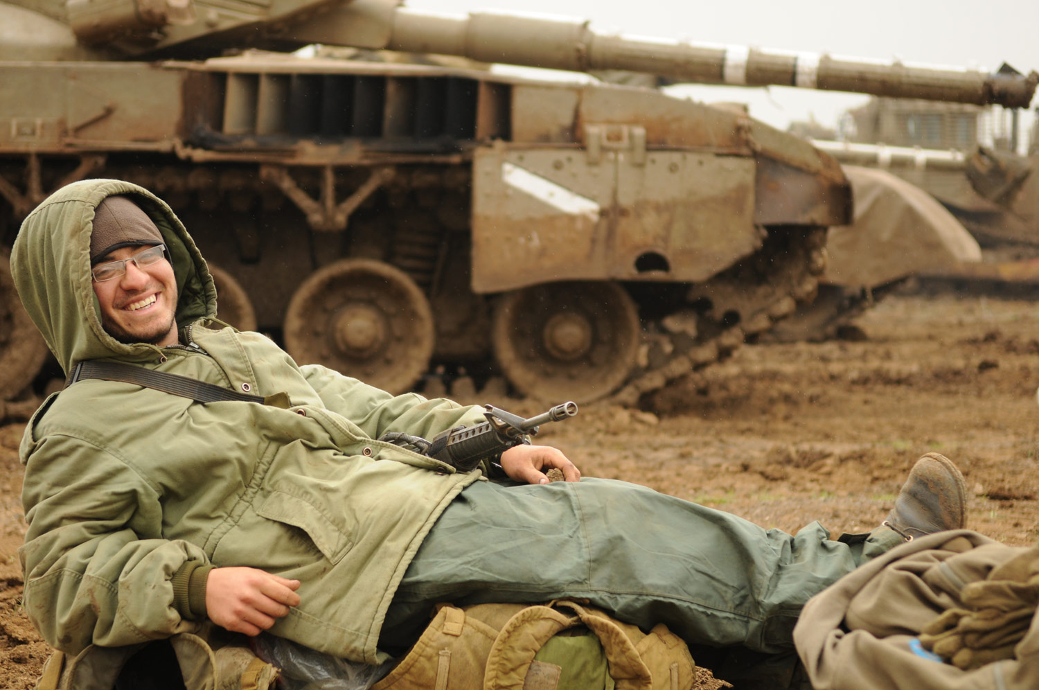 Last week, the 7th Armored Brigade completed a brigade maneuver in the Golan Heights, simulating combat scenarios in the north The exercise included live fire drills. During the exercise, forces simulated an attack in the north, along with fighting in enemy territory. Many infantry soldiers participated in the drill as well, including combat engineering forces who cleared the roads for the tanks and armored forces. During the live fire exercises, the Israel Air Force provided operational cover and air support. During any week of training, the IAF takes the opportunity to train in medical evacuations and landing airborne supplies. Featured as Photo of the Day on March 21, 2012 Photographed by Yuval Haker, IDF Spokesperon's Unit. The Israel Defense Forces Facebook The Israel Defense Forces blog Follow us on Twitter